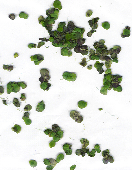 Spirodela polyrhiza (plants). Location: Maui, Kanaha Beach